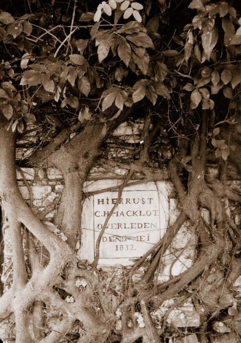 The grave of Heinrich Christian Macklot at Karawang